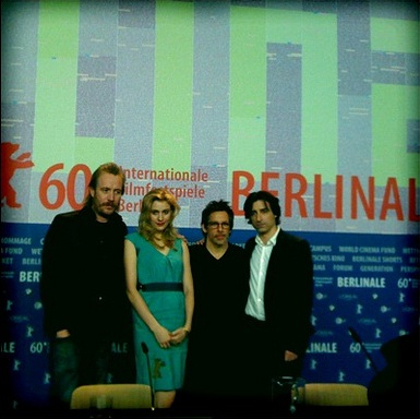 Members of the cast and crew of "Greenberg" at Berlinale 2010.